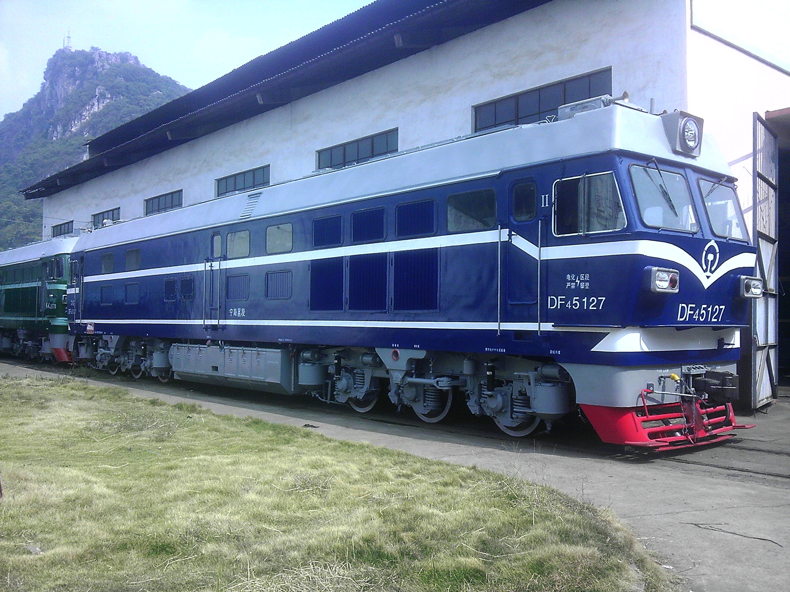 China Railways DF4C 5127 in Liuzhou Locomotive and Rolling Stock Plant.